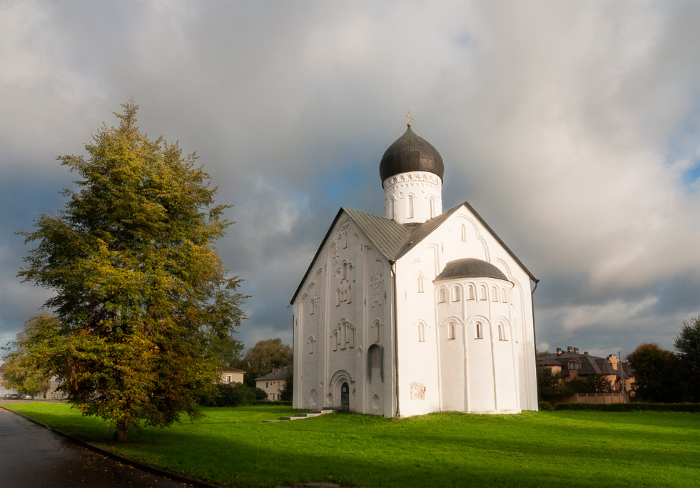 Church of the Transfiguration on Ilin Street